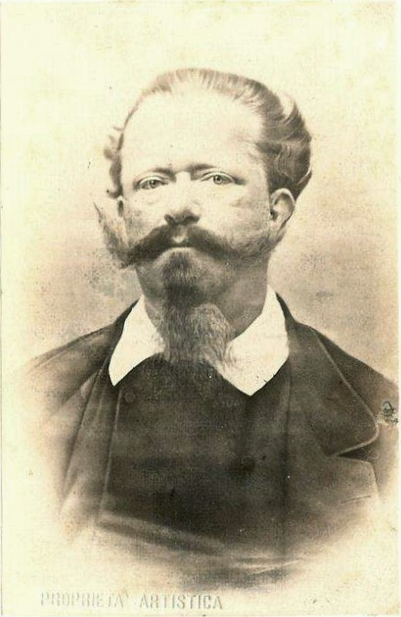 Alessandro Duroni (1807-1870) - Vittorio Emanuele II, king of Italy.